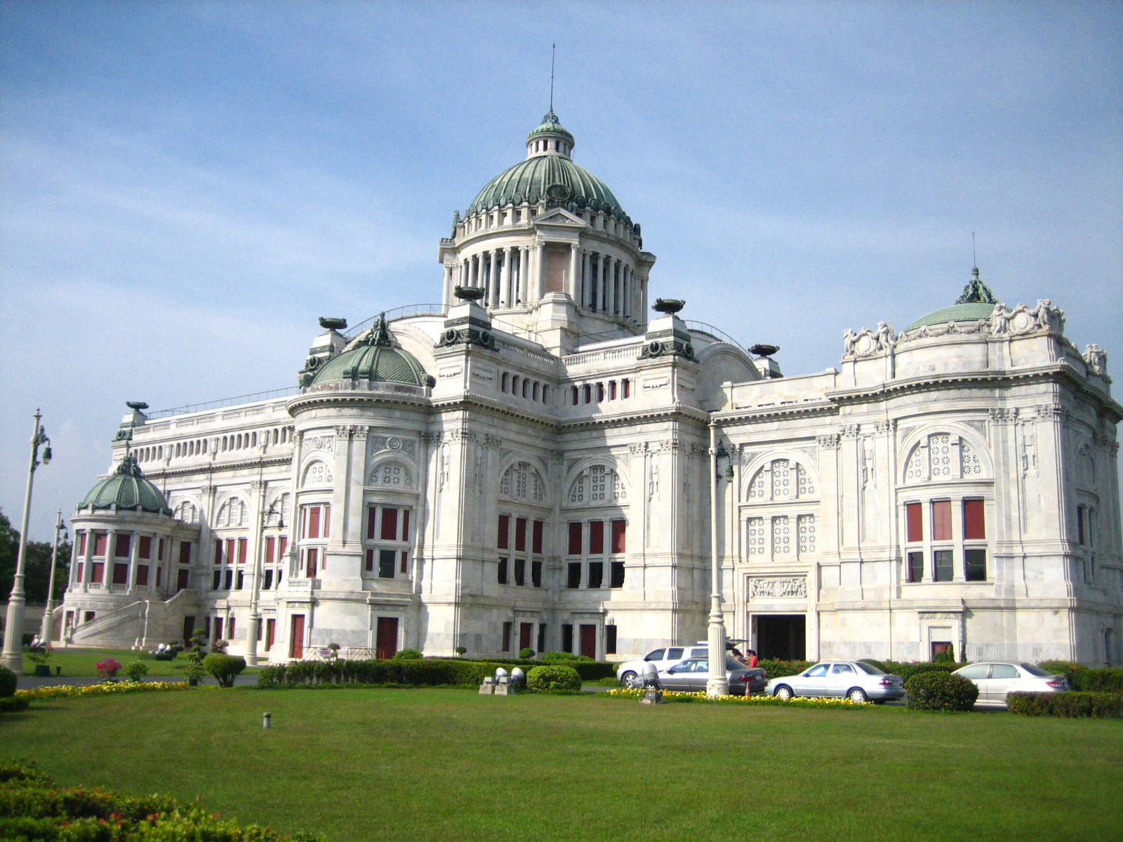 A picture of Ananta Samakhom Throne Hall in Bangkok, Thailand. Picture was taken with a Canon Power Shot SD450 Digital Elph camera.